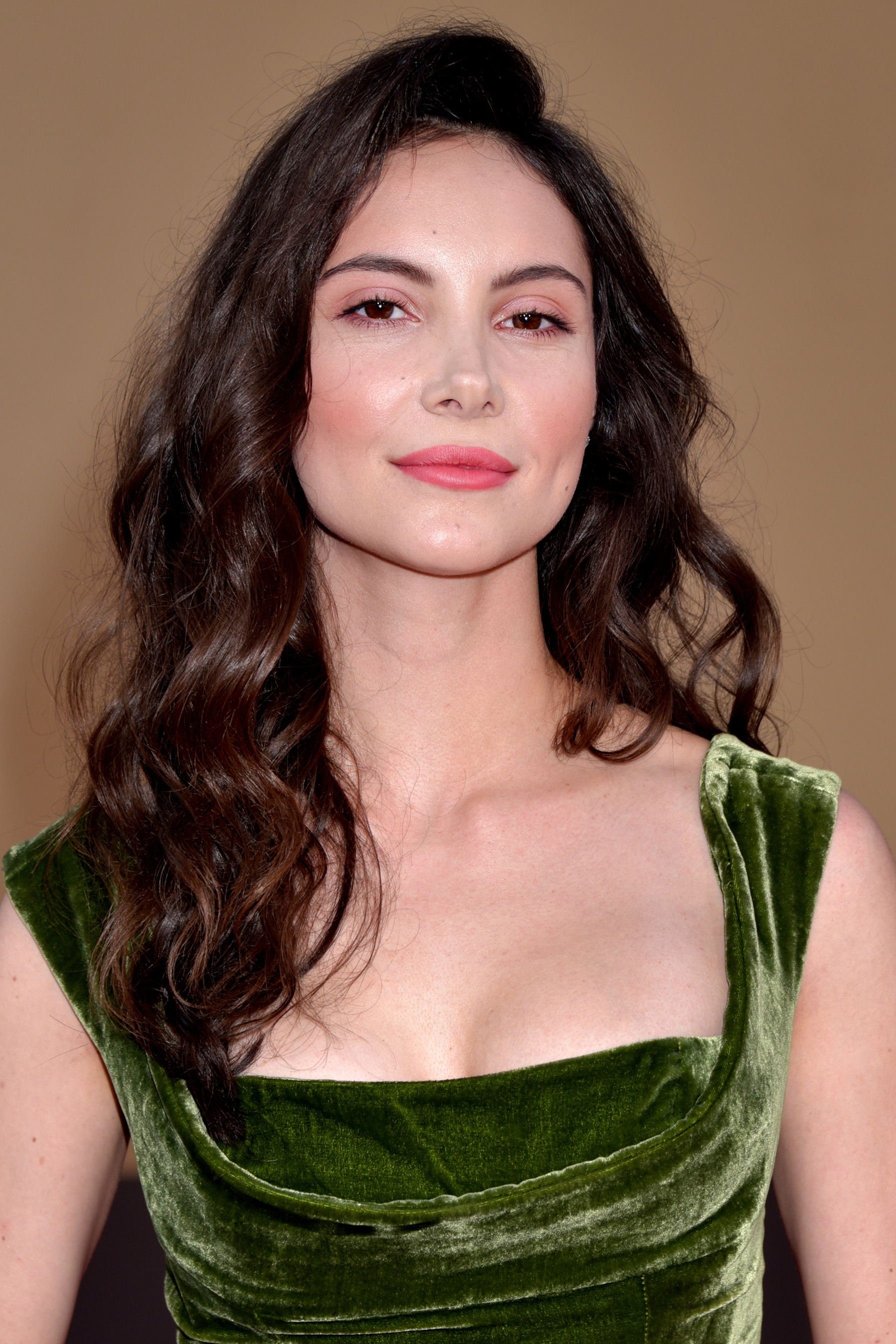 Samantha Robinson at the "Once Upon A Time in Hollywood" premiere in Hollywood, California on July 22, 2019 - Photo by Glenn Francis of